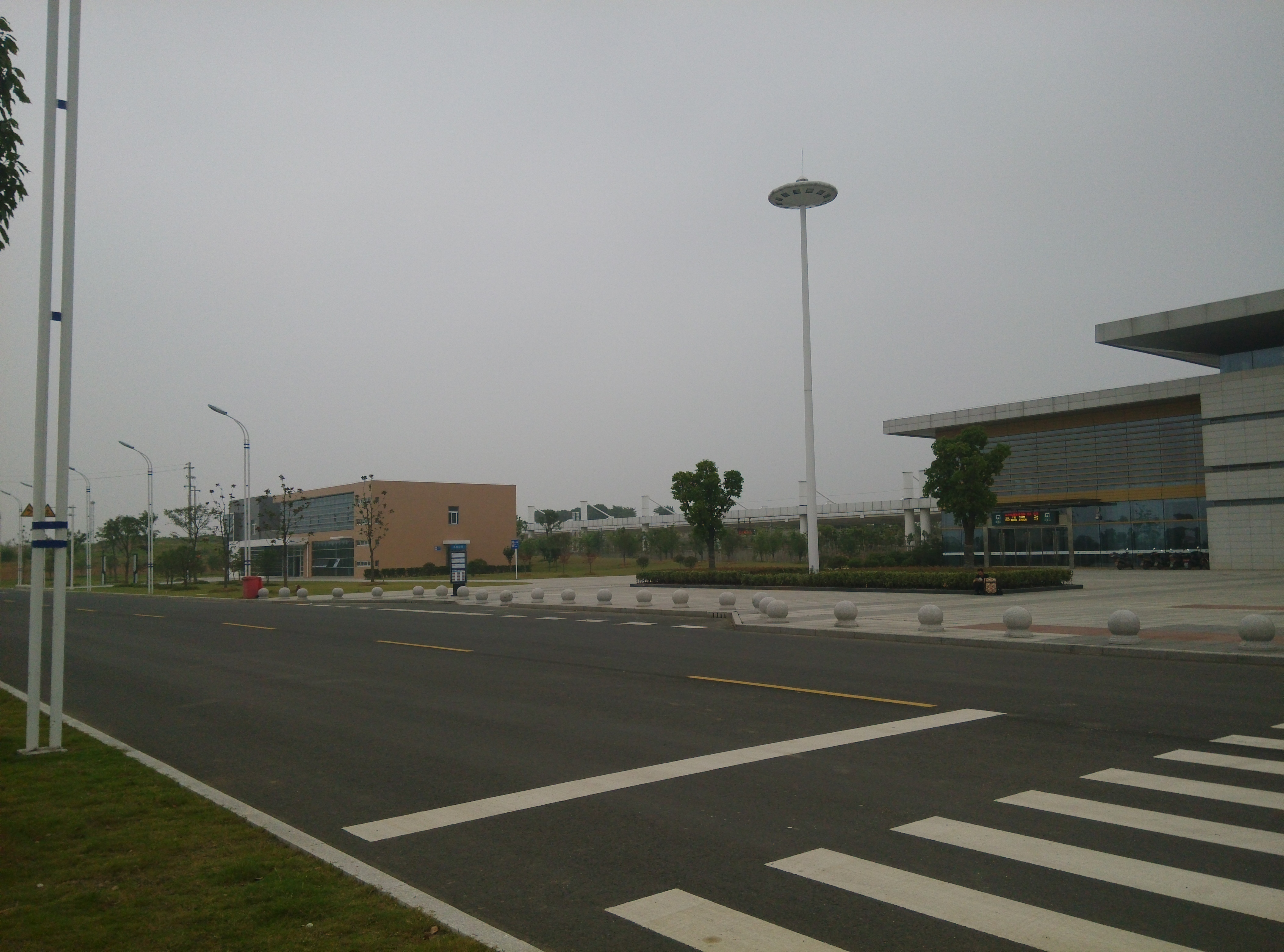 Wawushan Railway Station ancillary building (west)